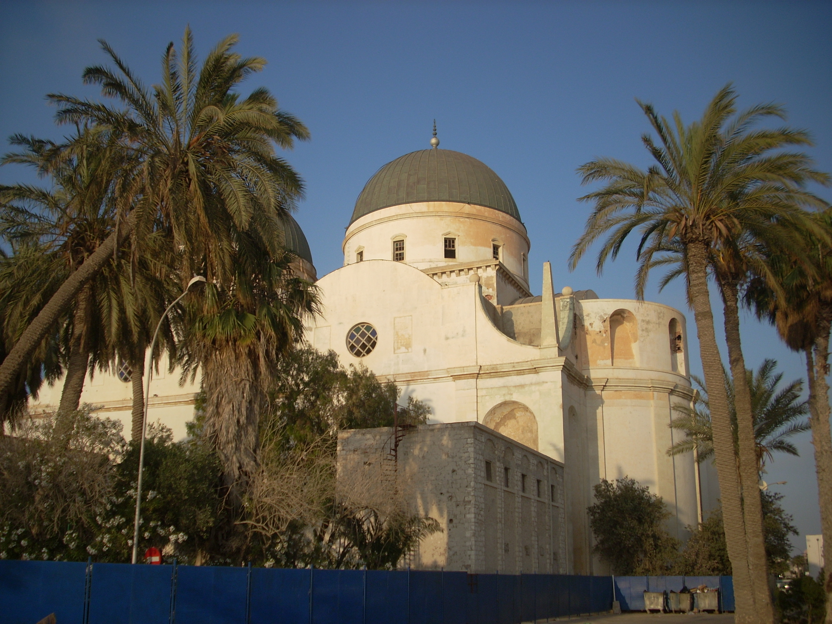 The former Benghazi Cathedral, which was later converted to the headquarters of the Arab Socialist Union before its closure. As of 2009, the building has been closed for renovation work by an Italian company.